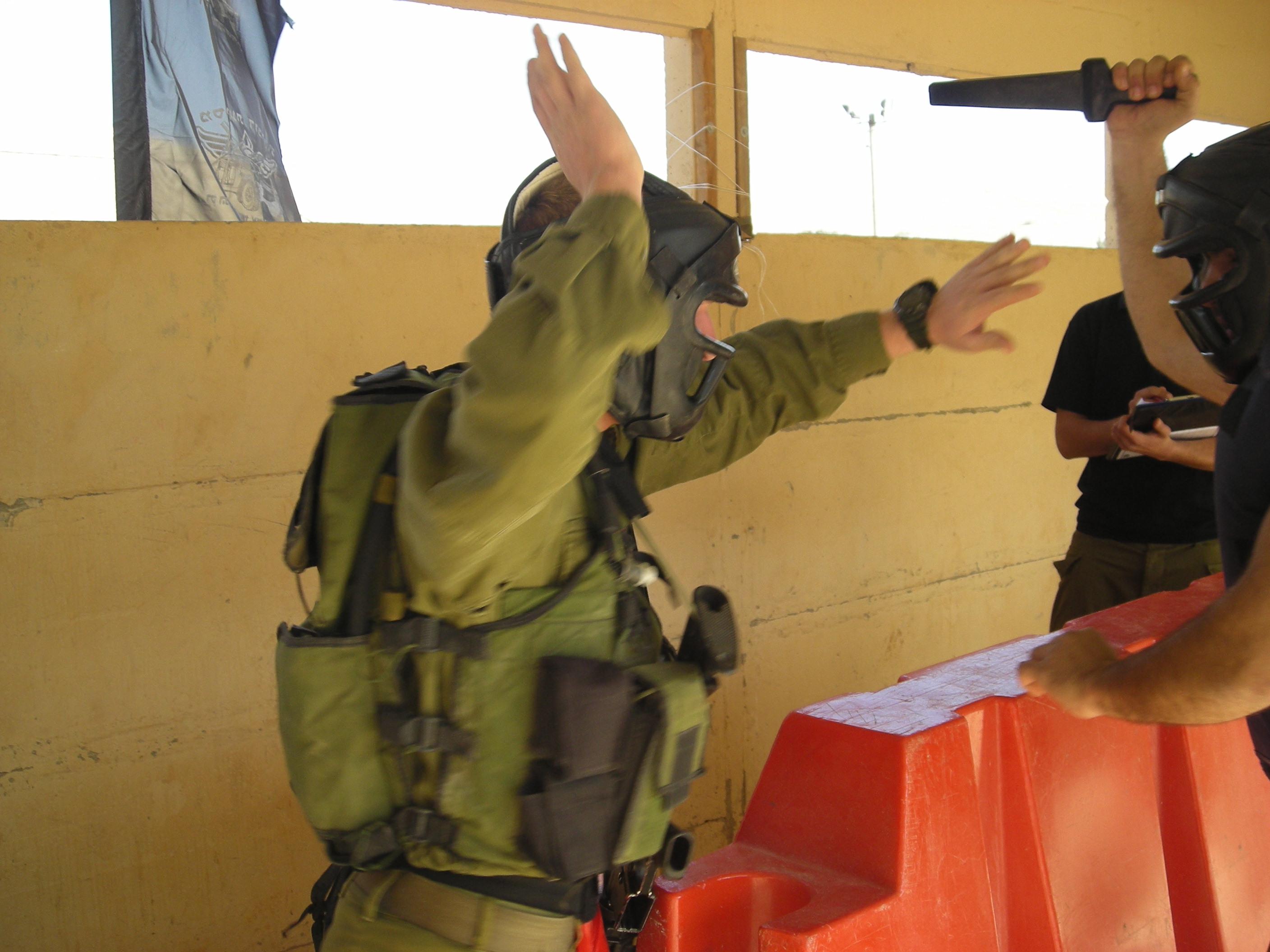 אימון קרב מגע